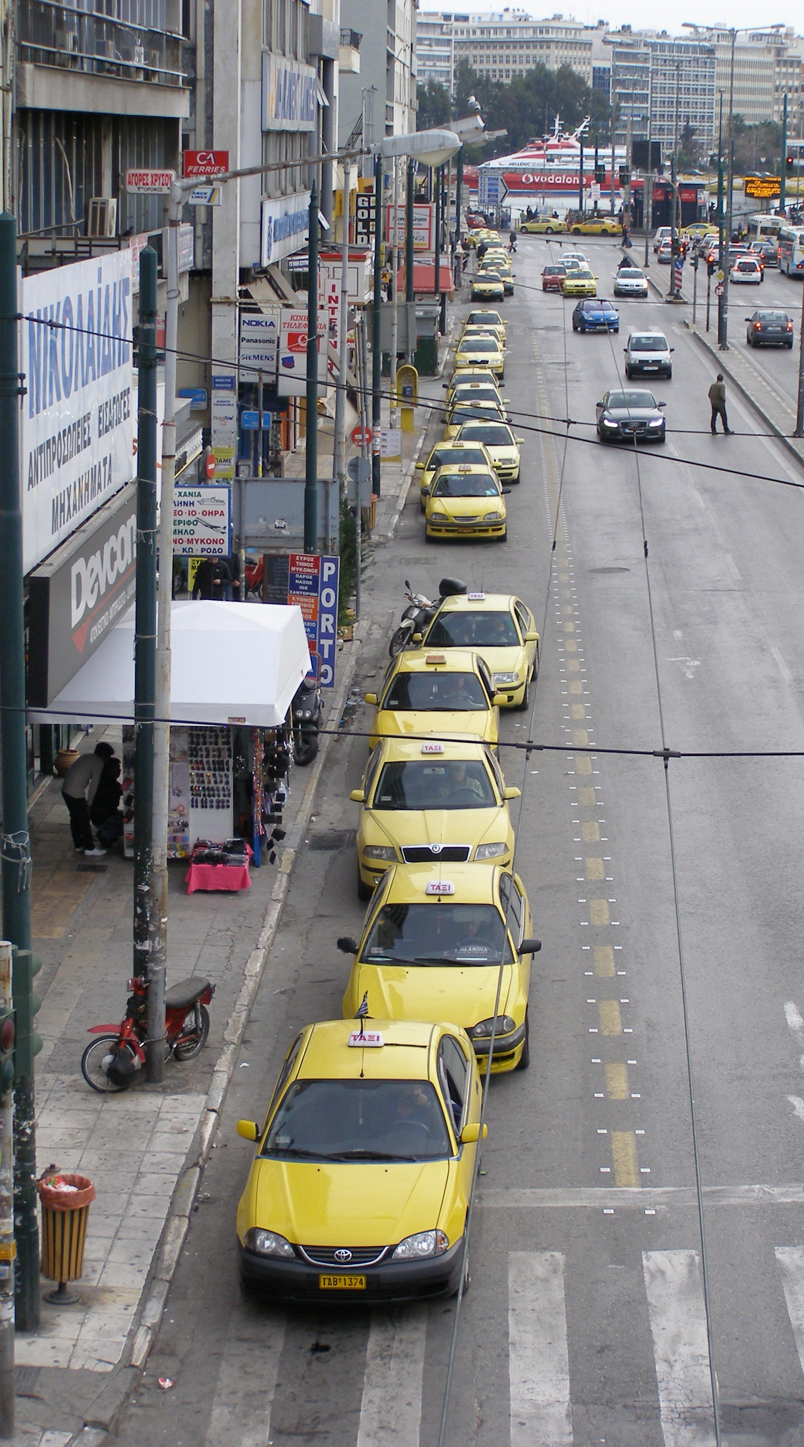 Piraeus - taxis along Akti Posidonos